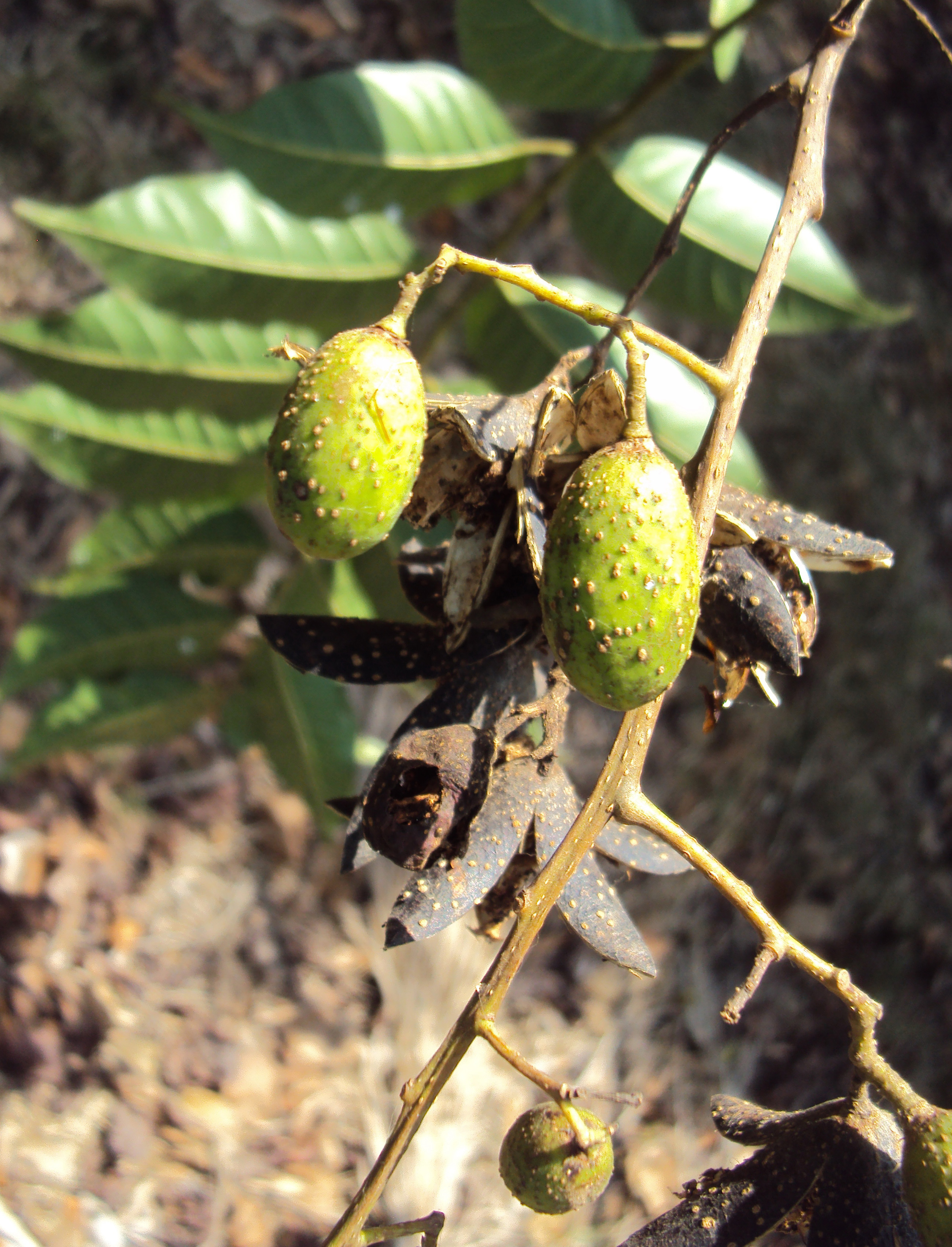 Toona ciliata